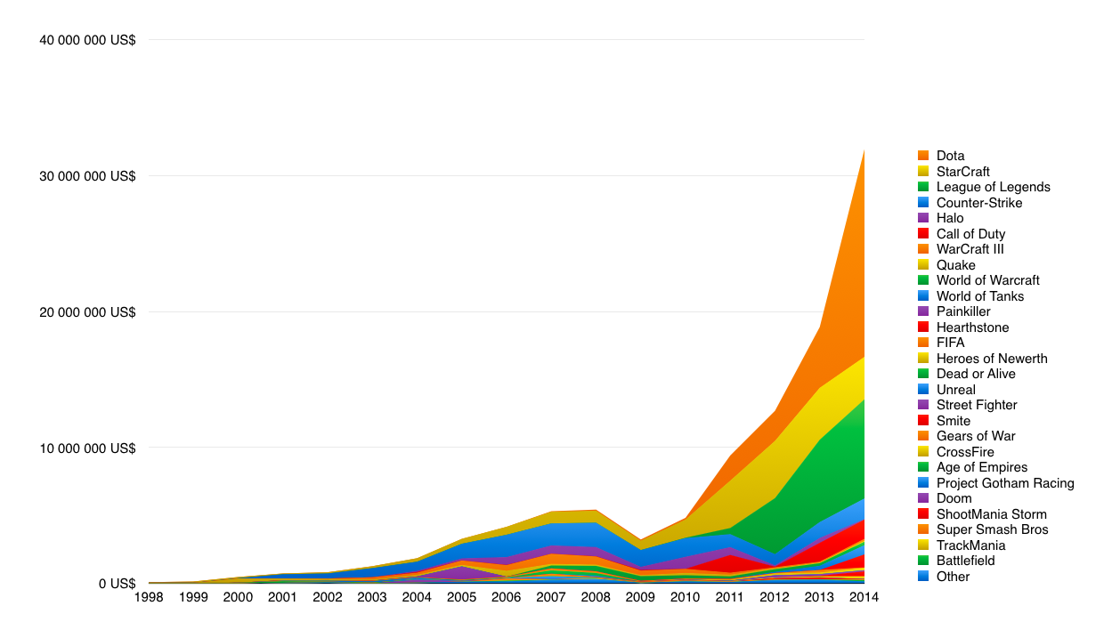 Chart of Esports tournament prize amounts, 1998–2014. gathered on Nov 15, 2014.